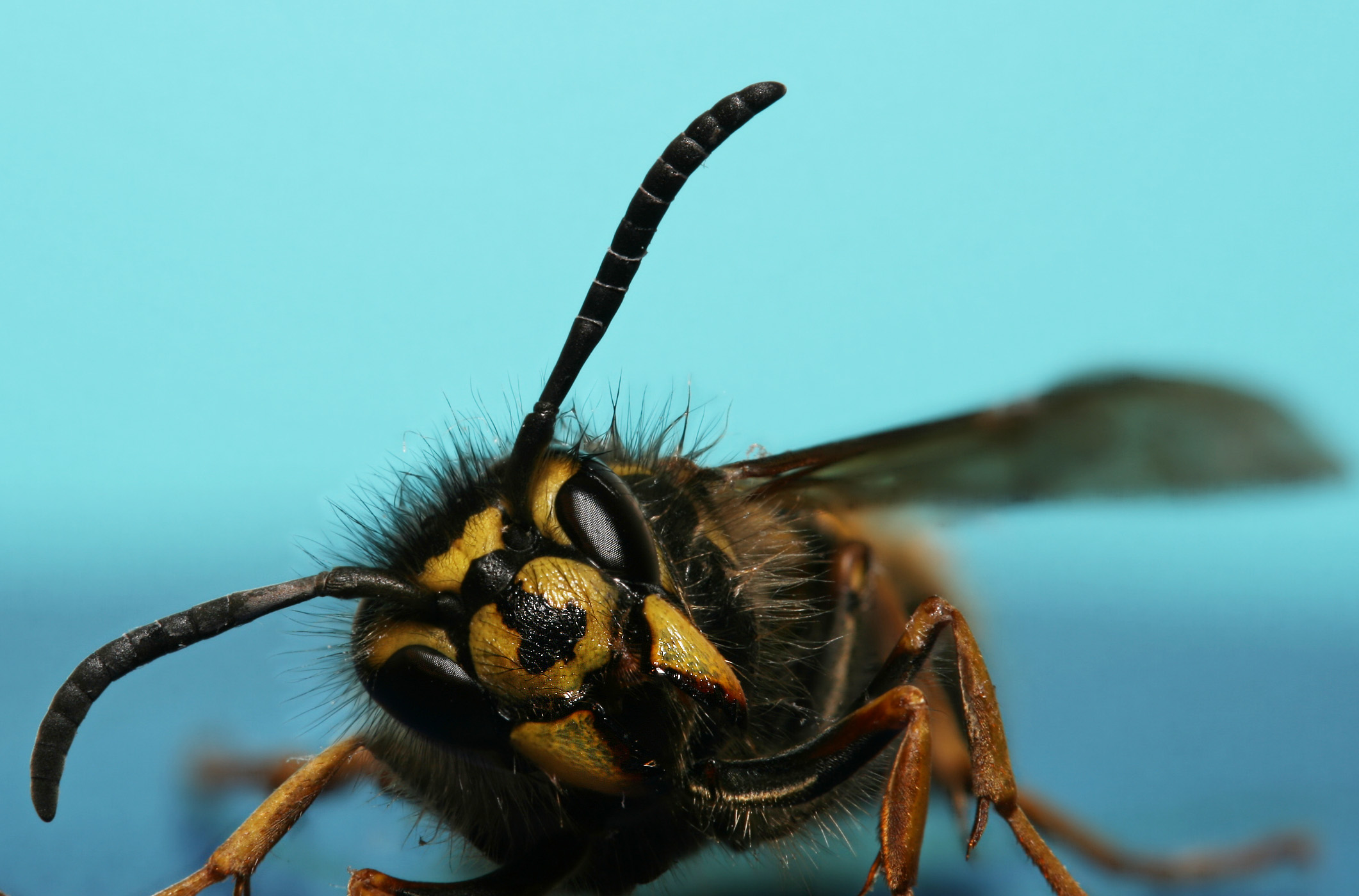 Frontal view of a common wasp (Vespula vulgaris)